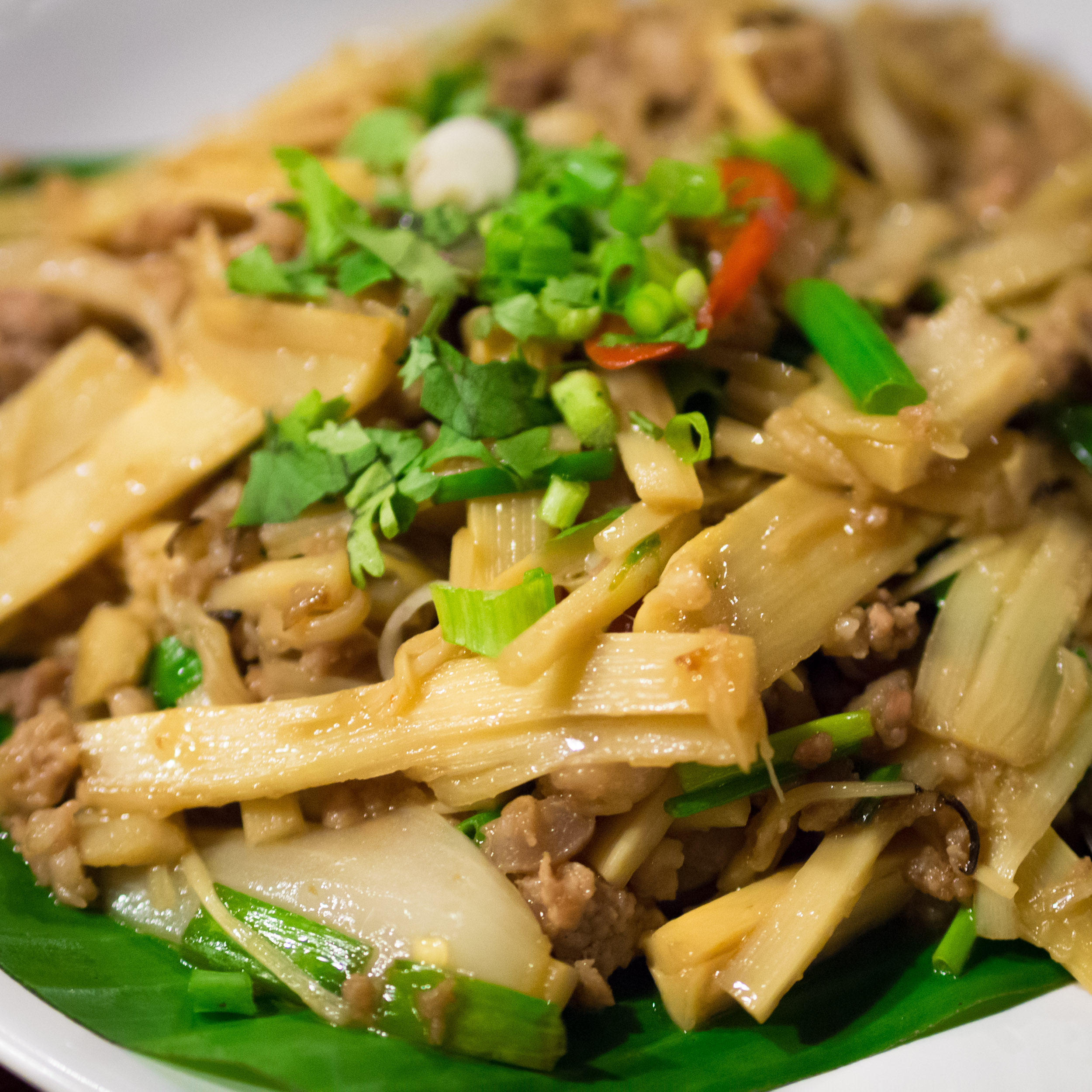 Khua no mai sai mu (Thai script: คั่วหน่อไม้ใส่หมู): stir-fried bamboo shoots with minced pork